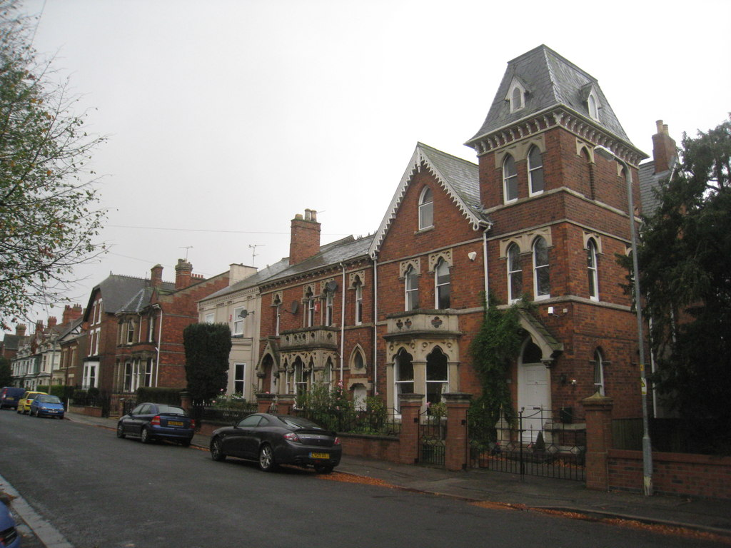 South Park Avenue